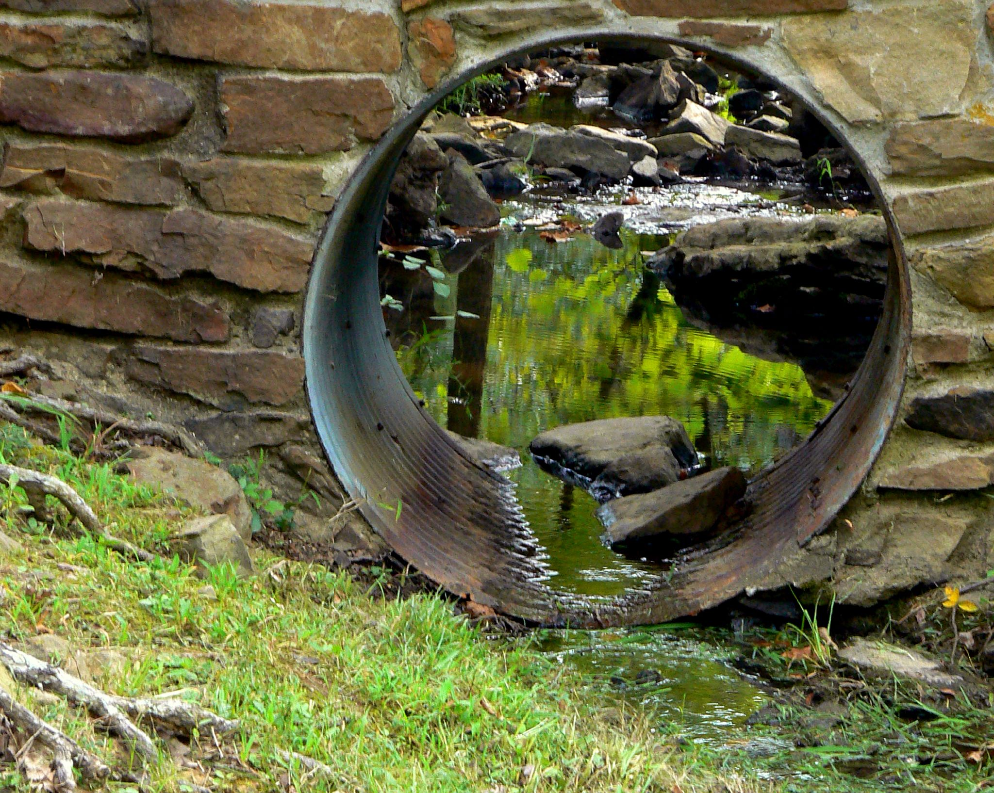 Taken at Robbers Cave State Park in Wilburton, Oklahoma.